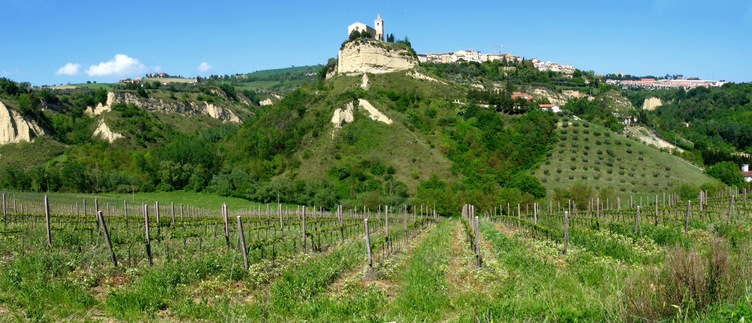 Vineyard in the Italian wine region of the Offida DOC in the Marche.